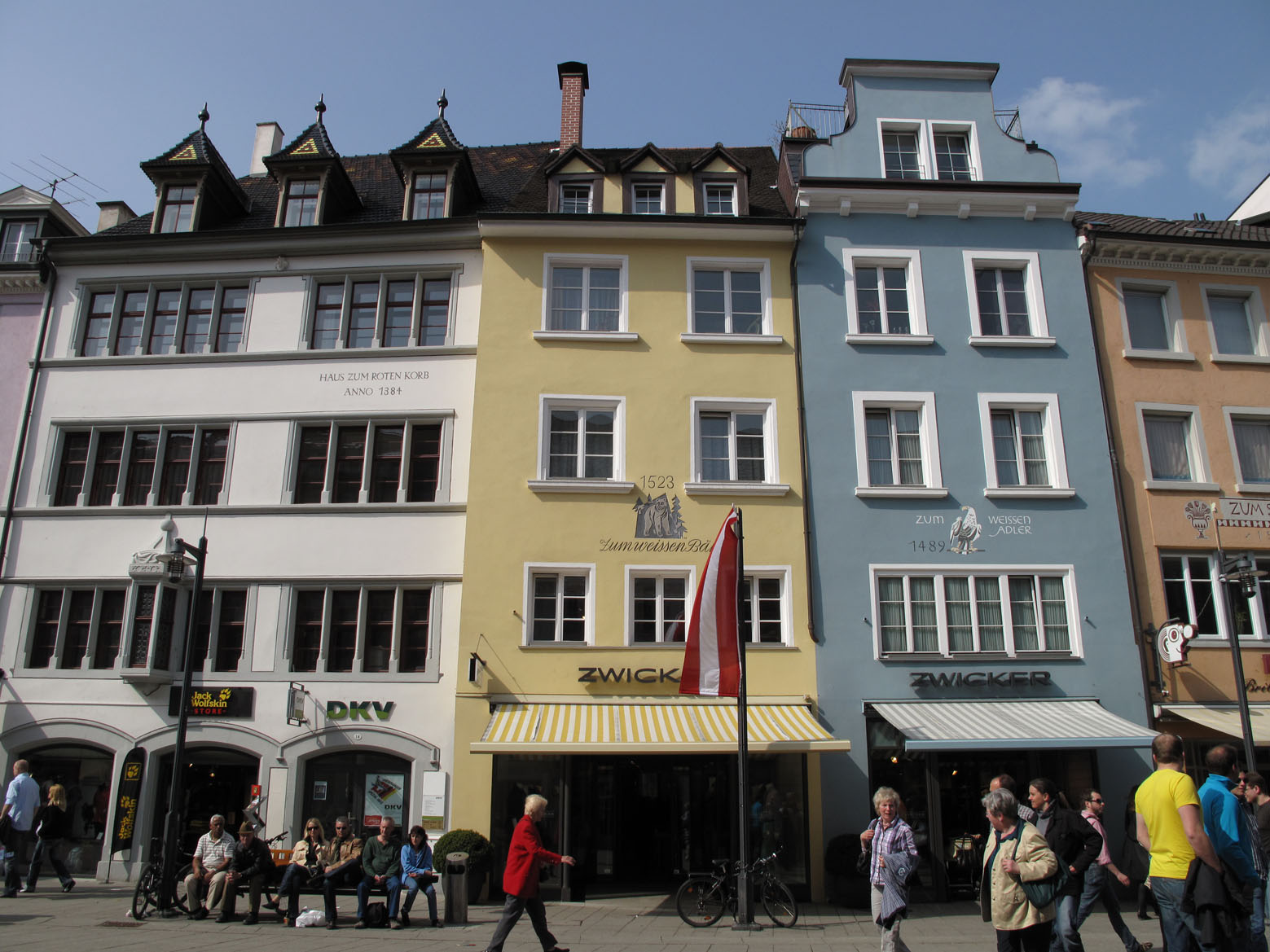 Plaza Markstätte de la ciudad de Constanza (Alemania)